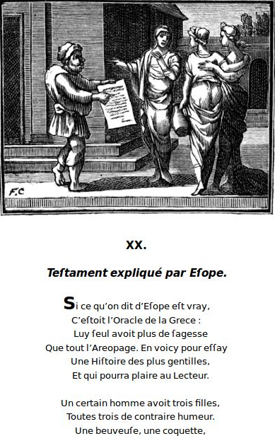 Scan of an original edition on Wikisource